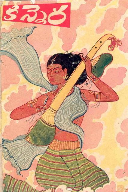 This is the cover page of the Telugu Monthly Magazine titled KINNERA